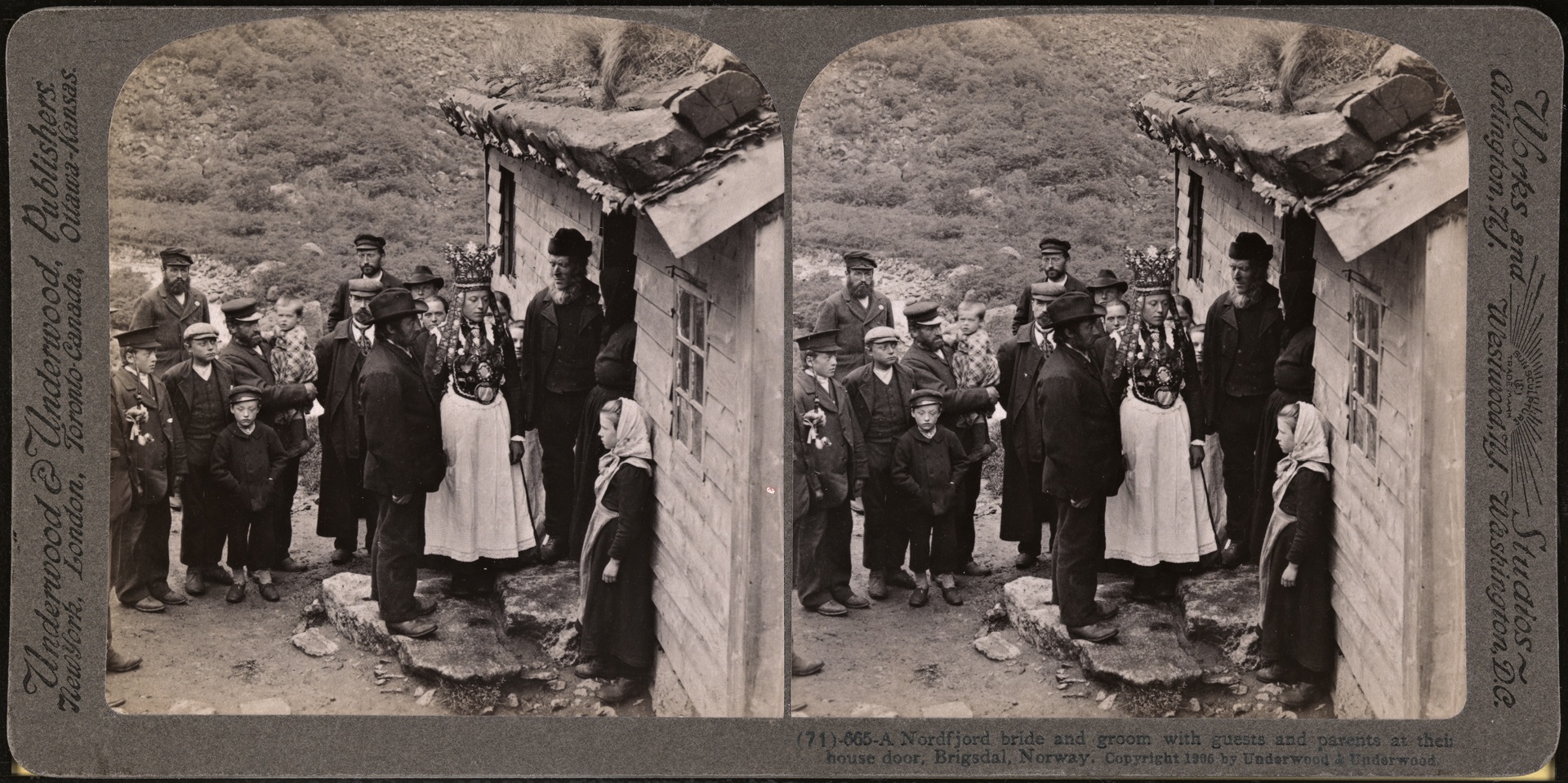 Tittel / Title: 665 (71). A Nordfjord bride and groom with guests and parents at their house door, Brigsdal, Norway Motiv / Motif: Stereoskopi. Dato / Date: ca 1906 Fotograf / Photographer: Elmer Underwood (1859-1947) Utgiver / Publisher: Underwood & Underwood Sted / Place: Sogn og Fjordane, Stryn, Briksdalen Eier / Owner Institution: Nasjonalbiblioteket / National Library of Norway Lenke / Link: Bildesignatur / Image Number: bldsa_stereo_0151